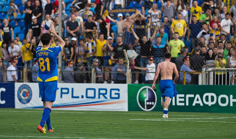 Romanian footballer Răzvan Cociș (left) in Russian championship, on 18.05.2012